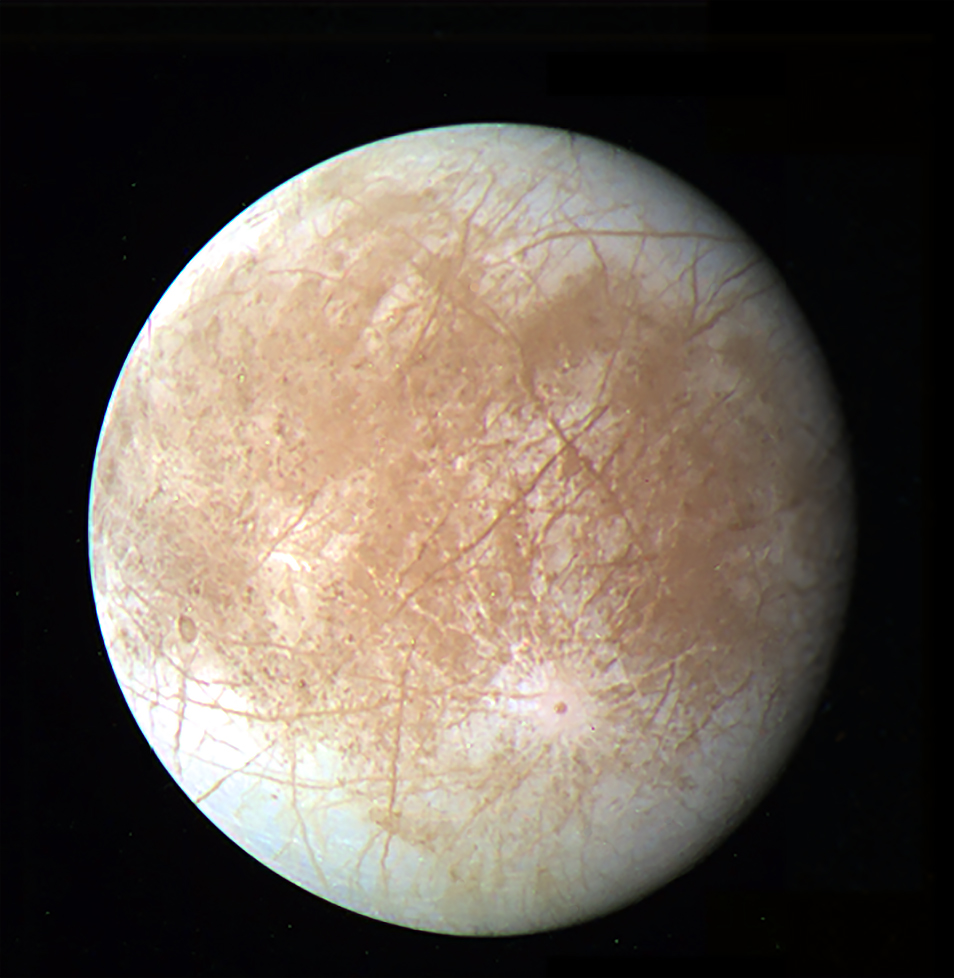 Image Credit: NASA/JPL/Processed by Kevin M. Gill